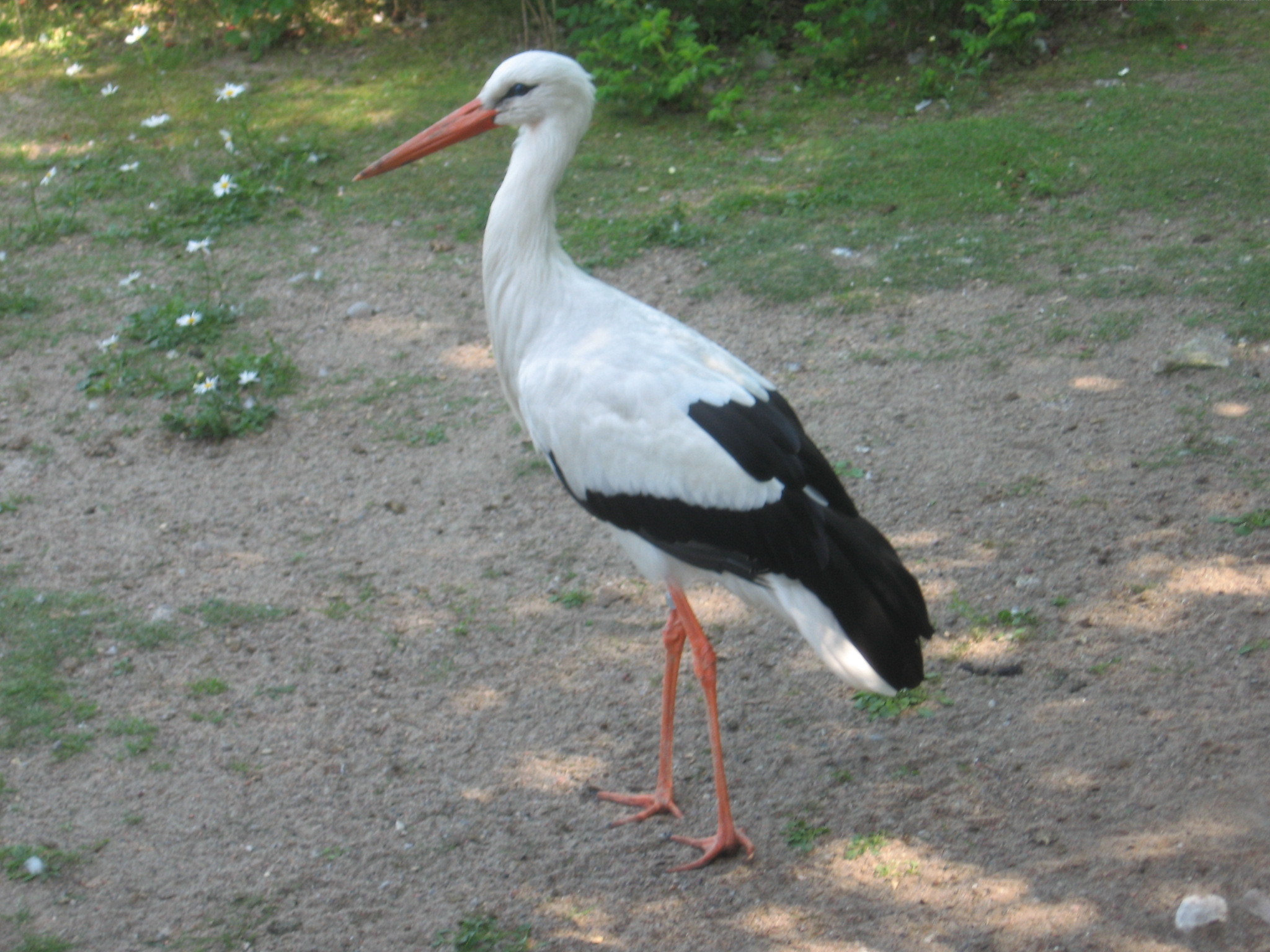 Tallinn Zoo White Stork (Ciconia ciconia)